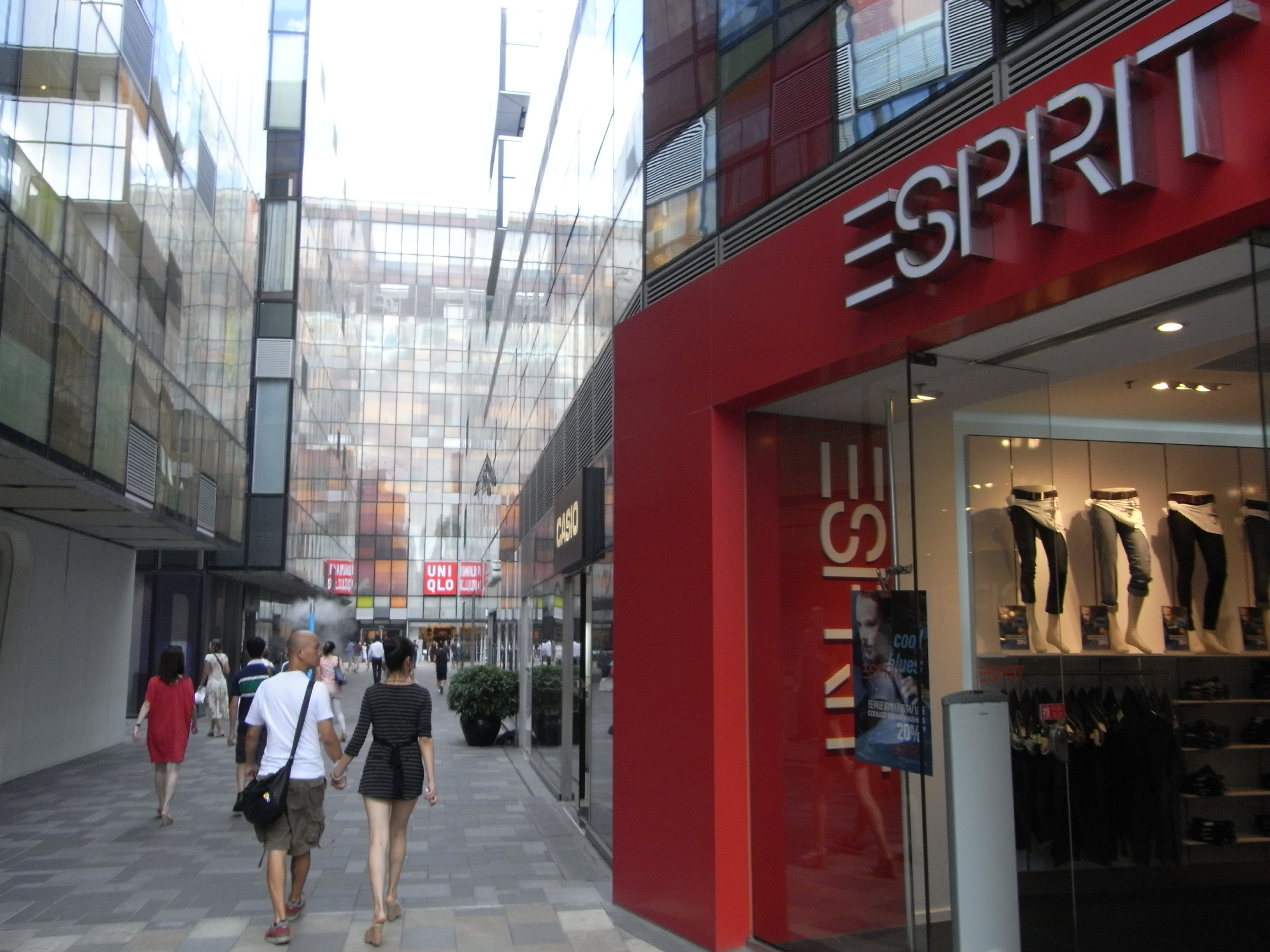 北京朝陽區2010年8月 Sanlitun